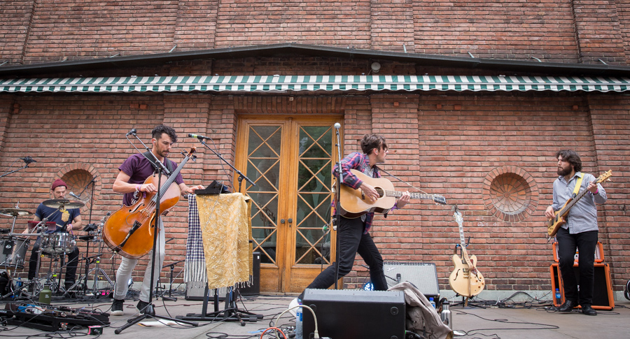 Tall Heights at the Borggården stage in the Vigeland museum. The concert was part of Piknik i Parken and took place on 22. June 2017 in Oslo. Lineup:Paul Wright (cello)Tim Harrington (guitar / vocal)Paul Dumas (drums)Unidentified (bass guitar)